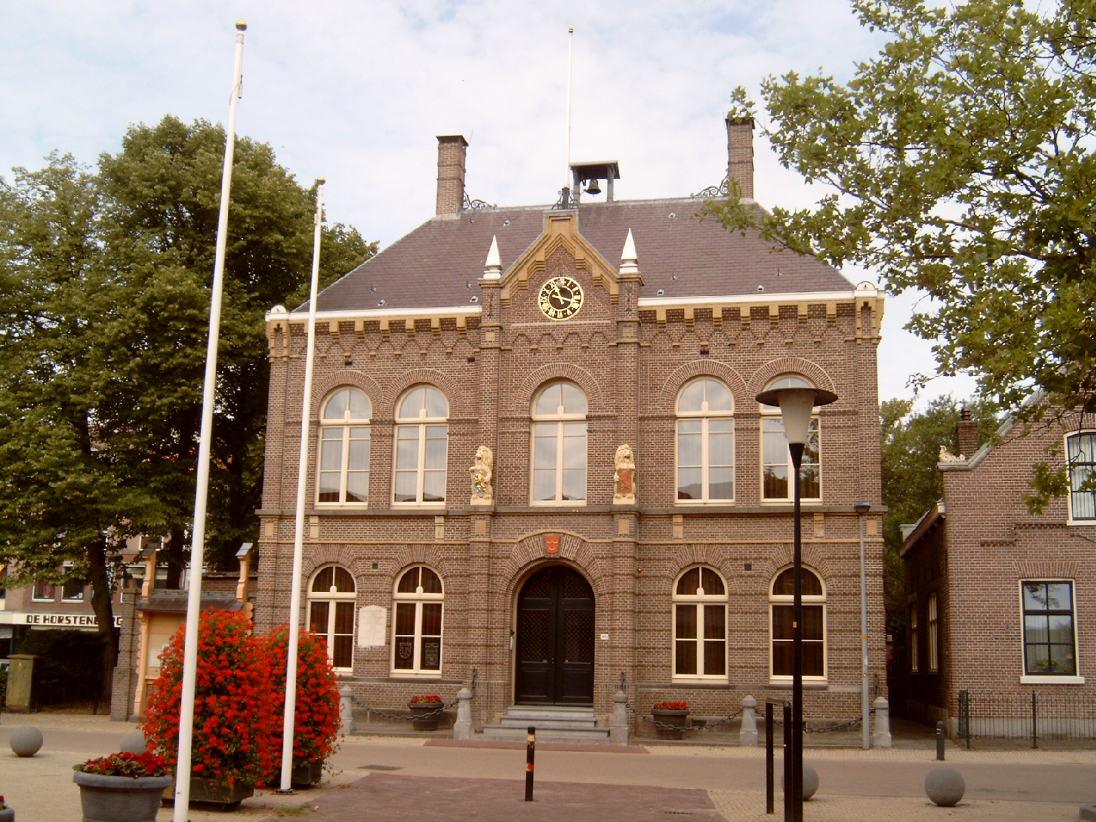 Obdam, monumental house